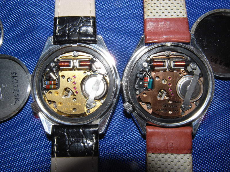 Accutron and Hisonic movement